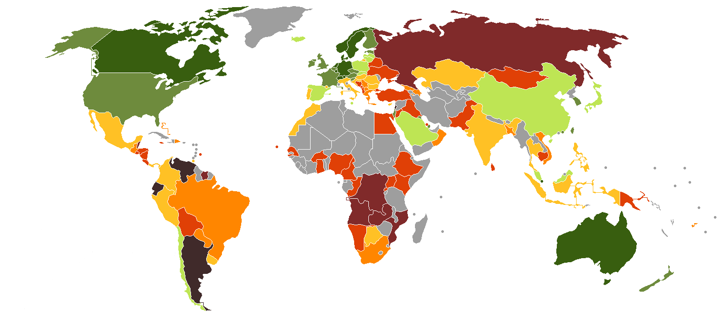 Countries by Standard & Poor's Foreign Rating